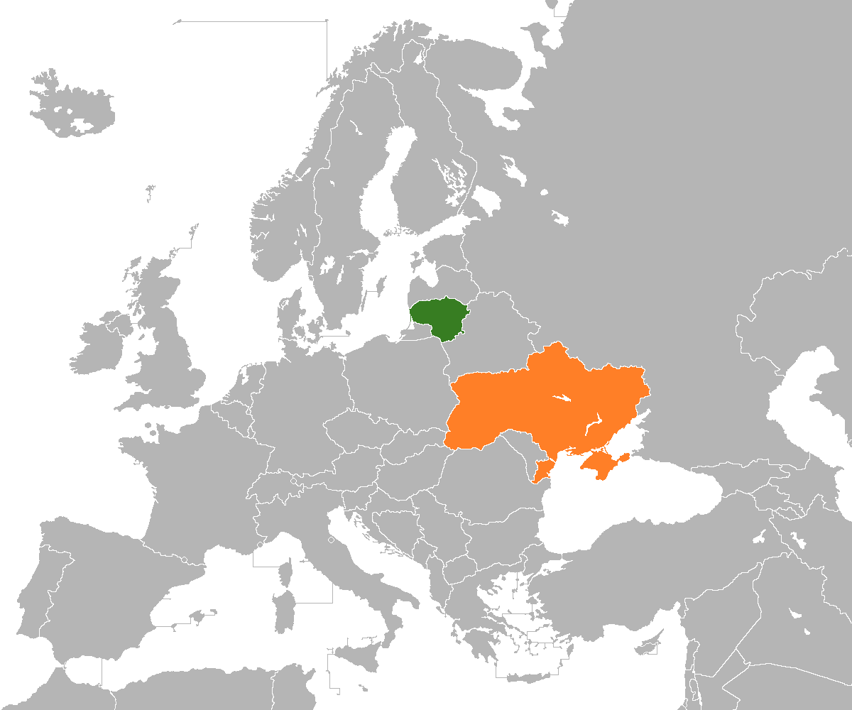 Lithuania-Ukraine locator map.